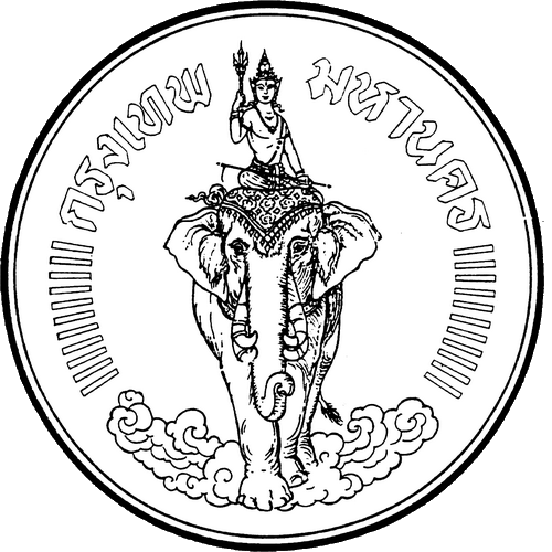 Seal of Bangkok.